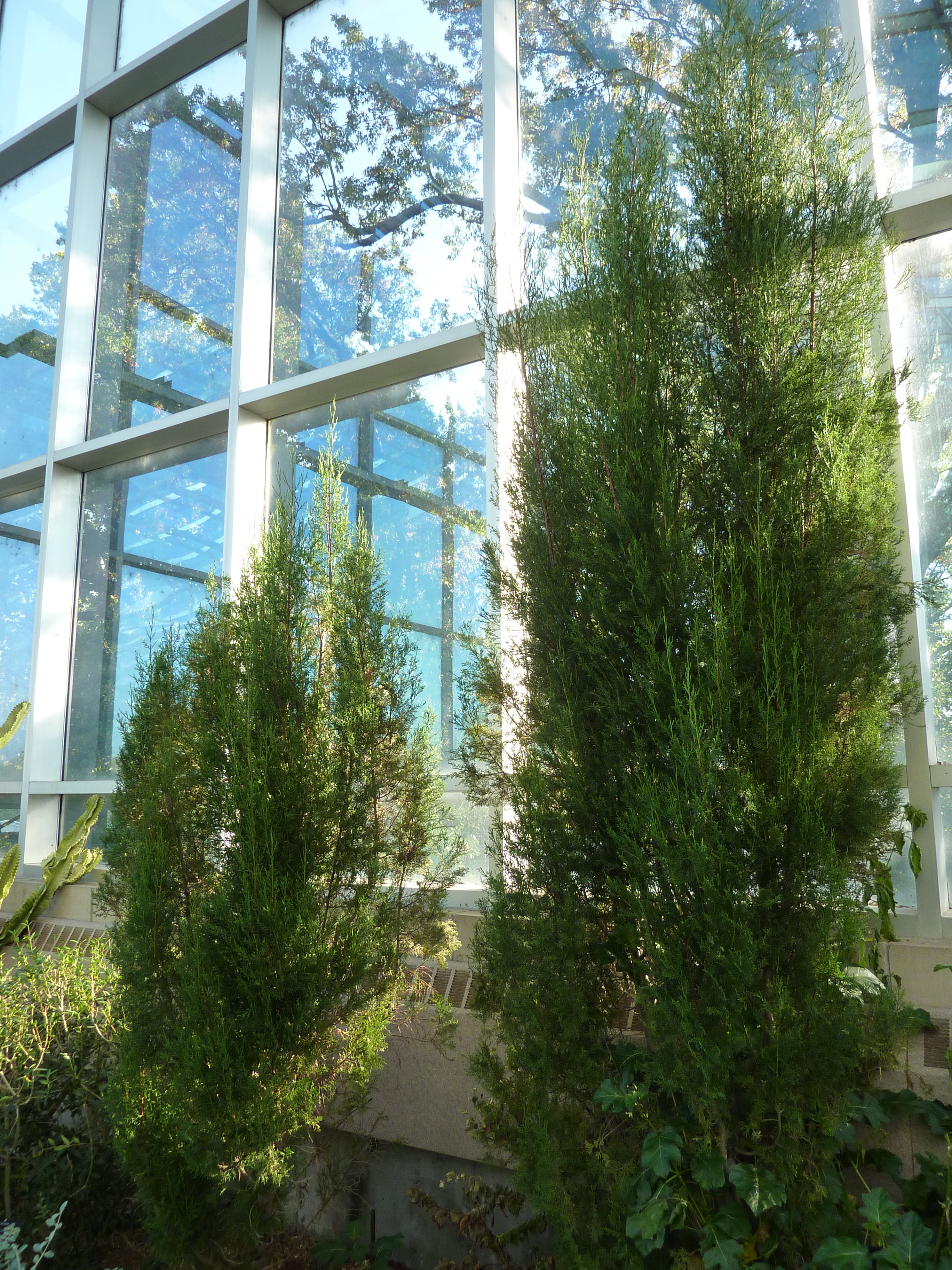 Cupressus dupreziana (Saharan Cypress), growing in the Temperate House of the Missouri Botanical Garden. This plant is endemic in southeastern Algeria.